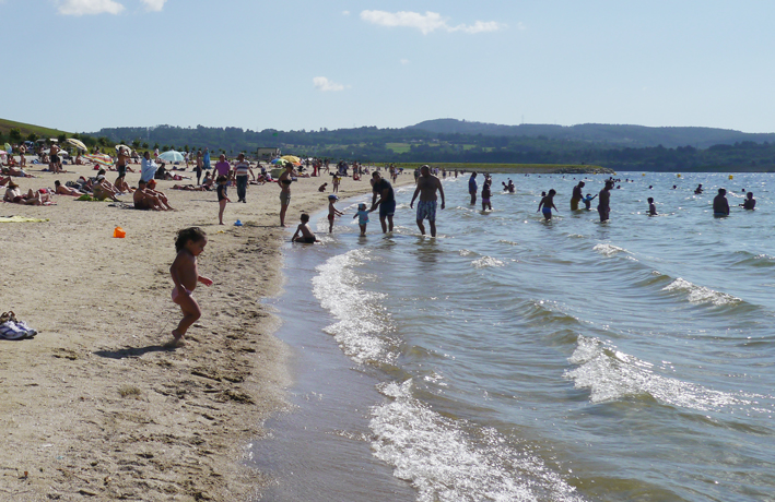 Beach of As Pontes